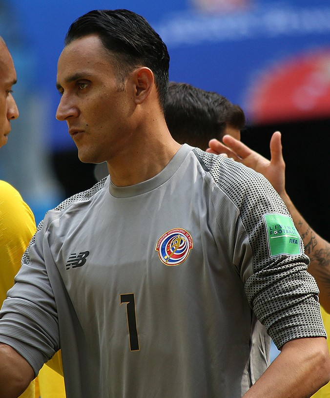 Keylor Navas